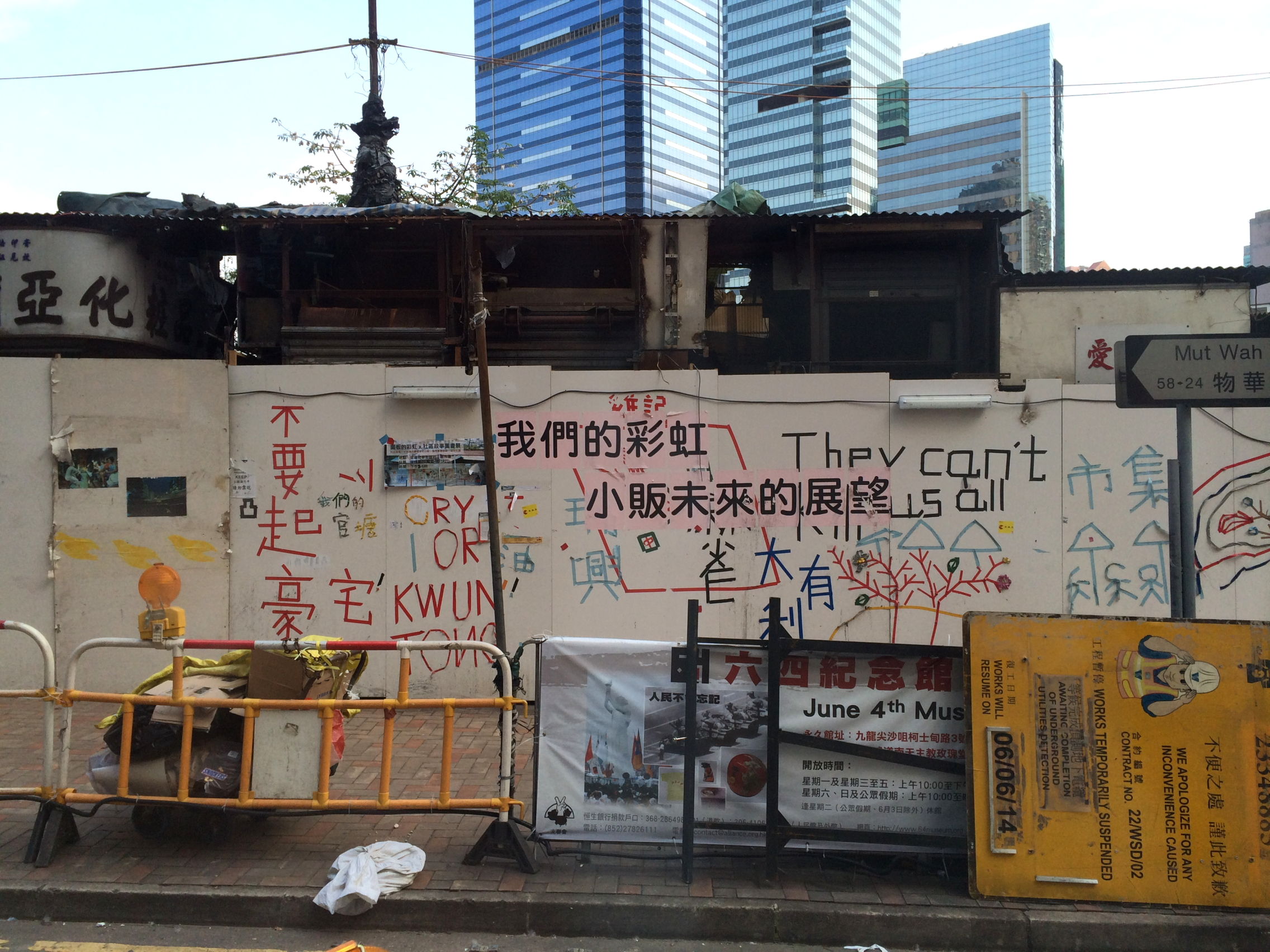 Kwun Tong Town Centre Redevelopment Against Banne